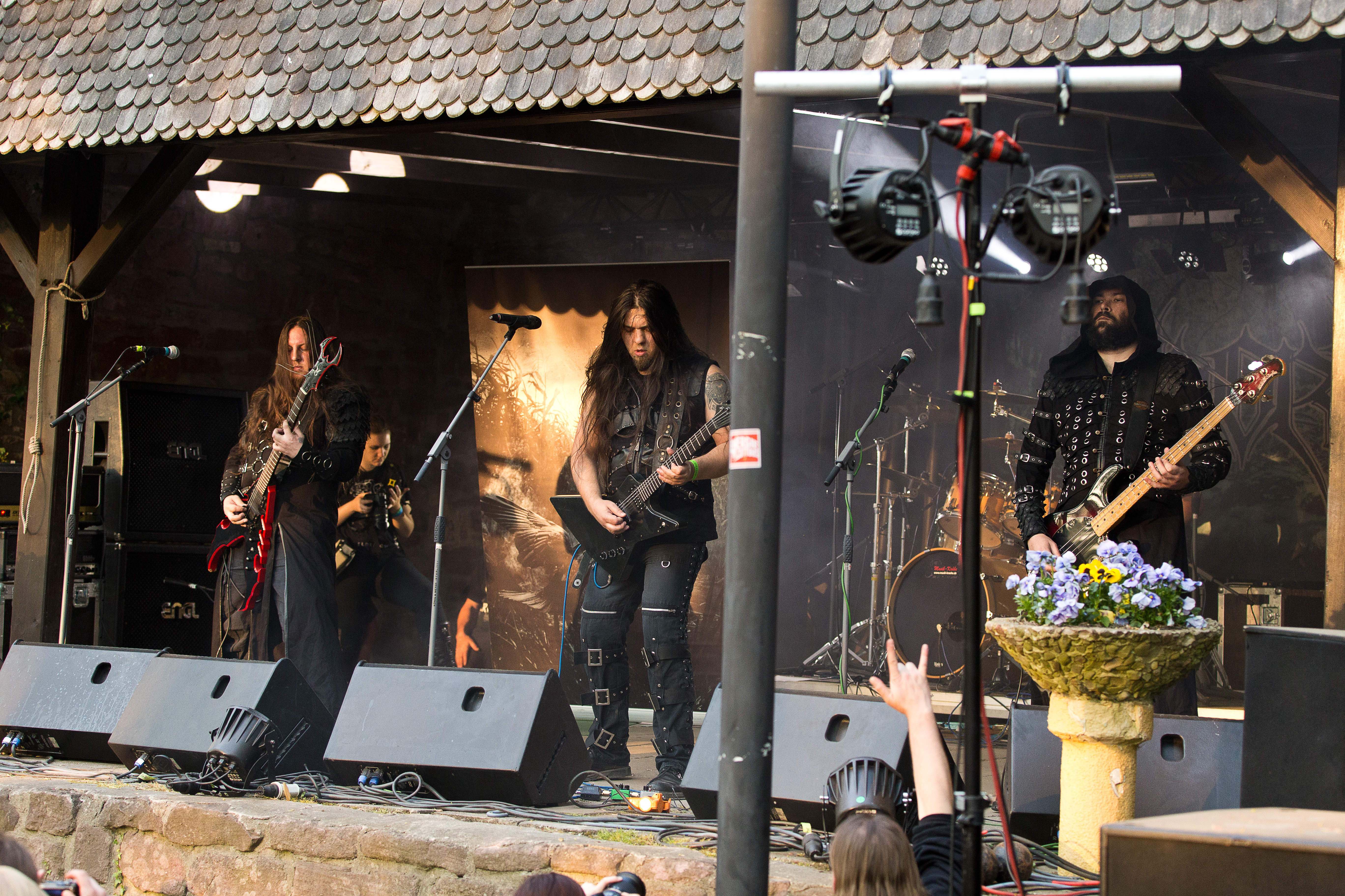 The Ukrainian black metal band Khors at the Dark Troll Open Air 2016 in Bornstedt/Germany.